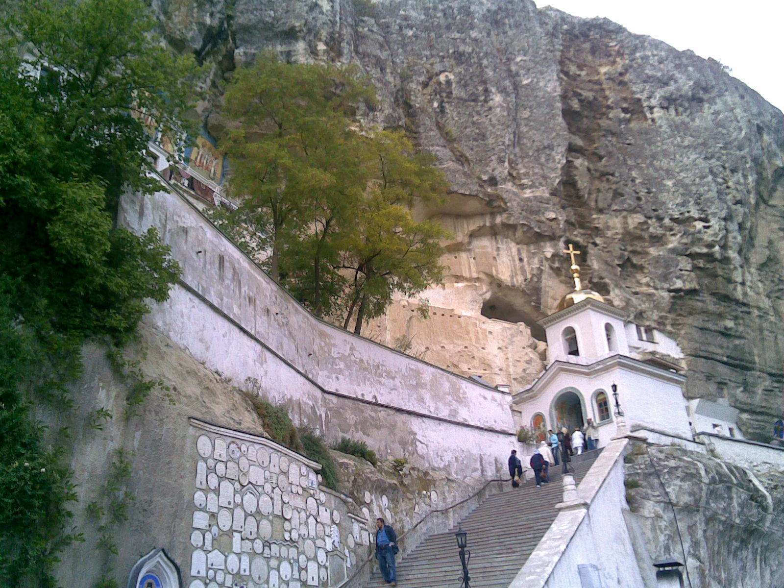 Uspensky Cave Monastery, Crimea, Ukraine